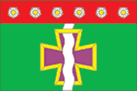 Flag of Afipsky, Krasnodar Territory, Russia